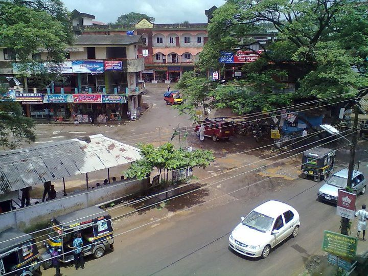 A long view of omassery bus stand